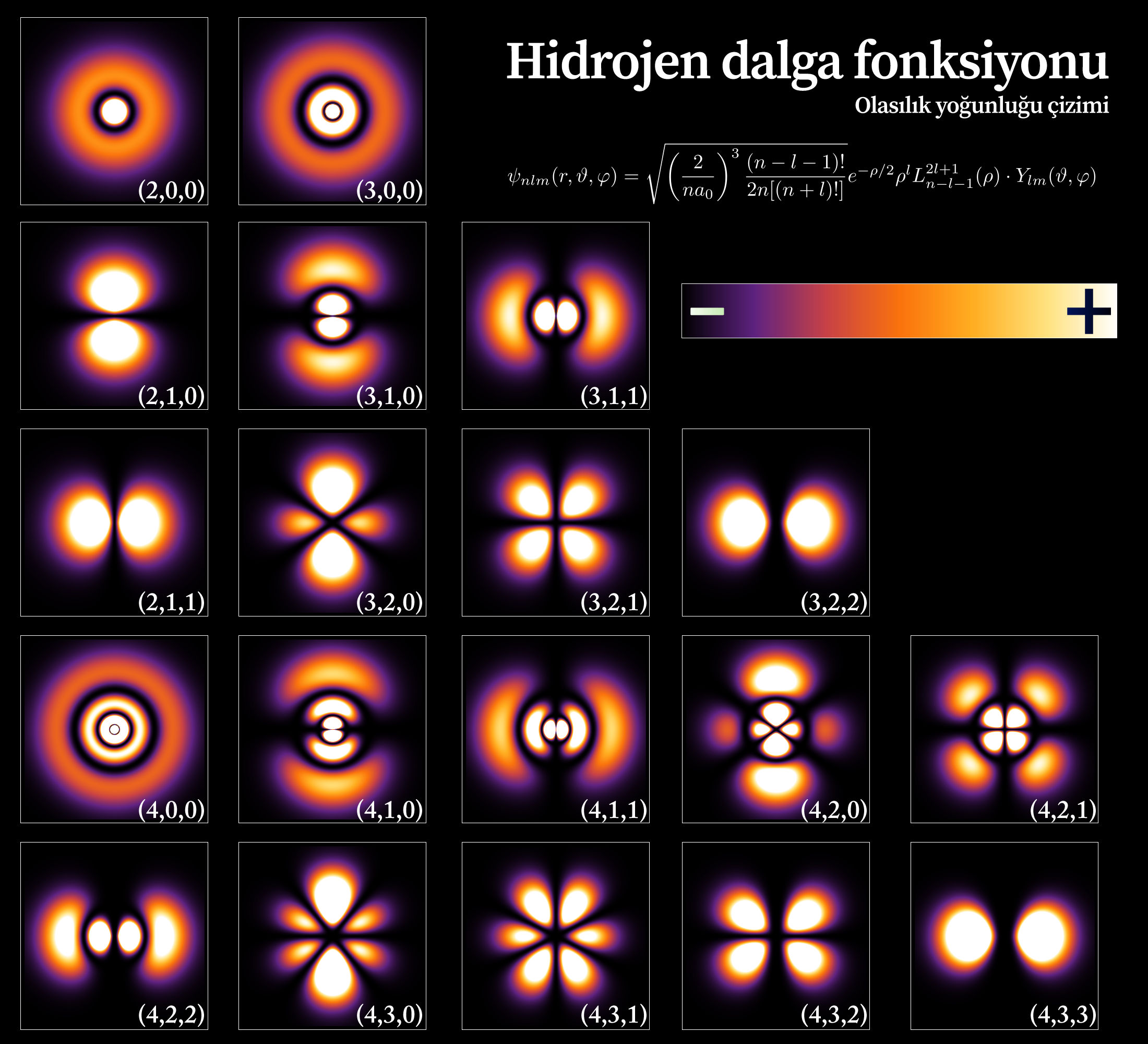 Hydrogen Density Plots for n up to 4. Wavefunctions of the electron in a hydrogen atom at different energy levels. Quantum mechanics cannot predict the exact location of a particle in space, only the probability of finding it at different locations. The brighter areas represent a higher probability of finding the electron.